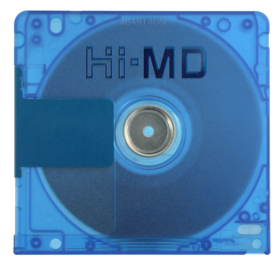 Sony Hi-MD disc, back view